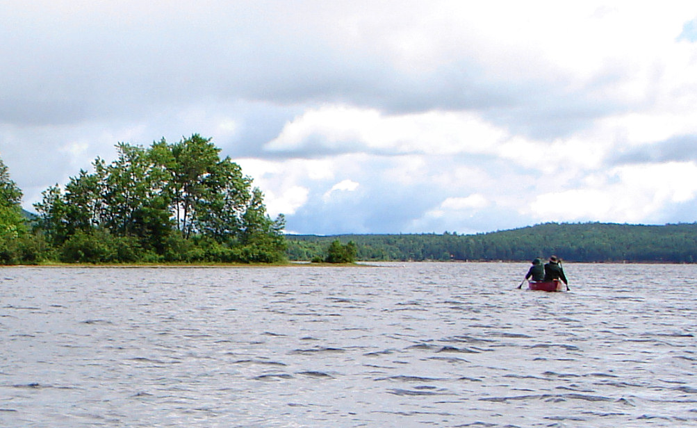 Grasswell Point in Talon Lake, near North Bay and Mattawa, Ontario, Canada